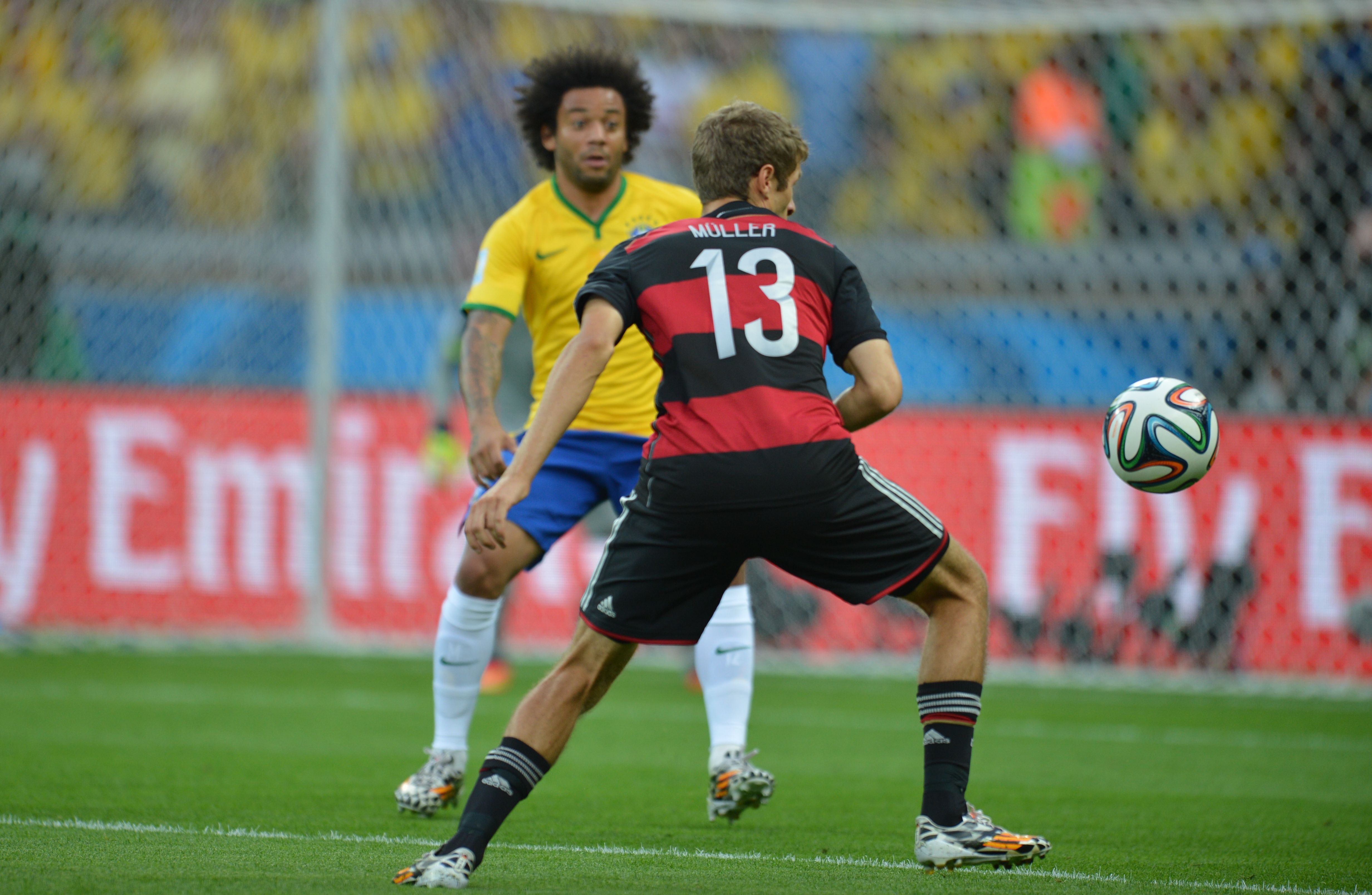 Brazil vs Germany, in Belo Horizonte